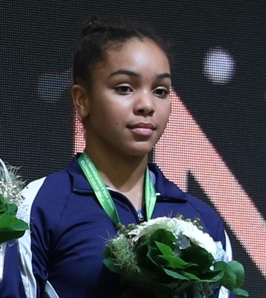 Victory ceremony for the girls' team final at the 1st FIG Artistic Gymnastics Junior World Championships on 28 June 2019 in Győr, Hungary. Depicted: Konnor McClain.